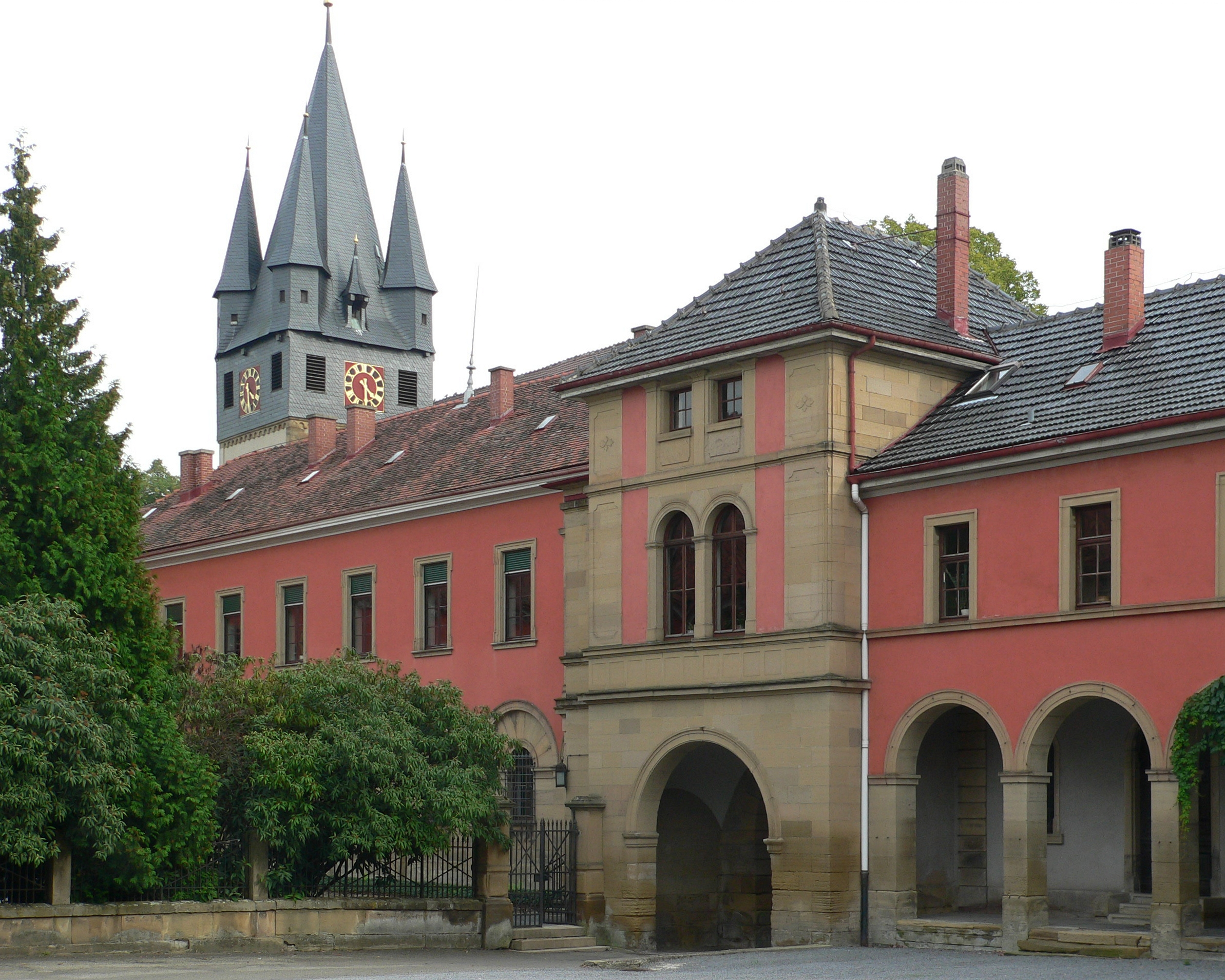 Inner Courtyard of the Castle (with Church in the Background) Of Schwaigern/Germany